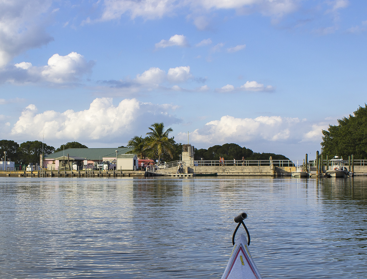 Flamingo Marina, salt/fresh water dam view from the Bay access side. With kayak launch pad, overnight slips, and ranger boats visible ahead.